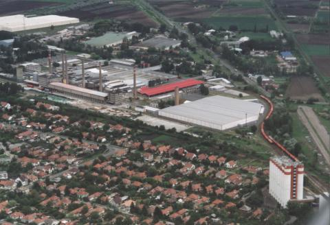 Guardian Ltd. Glass manufacture in Csorvási Rd. Orosháza, Hungary, aerialphotography